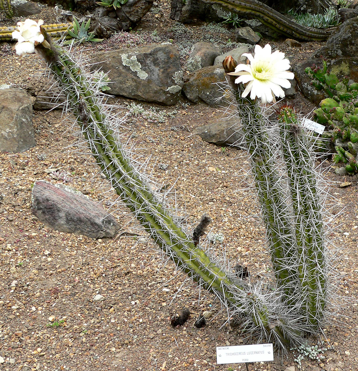 Photo of Trichocereus lucernatus at the University of California Botanical Garden